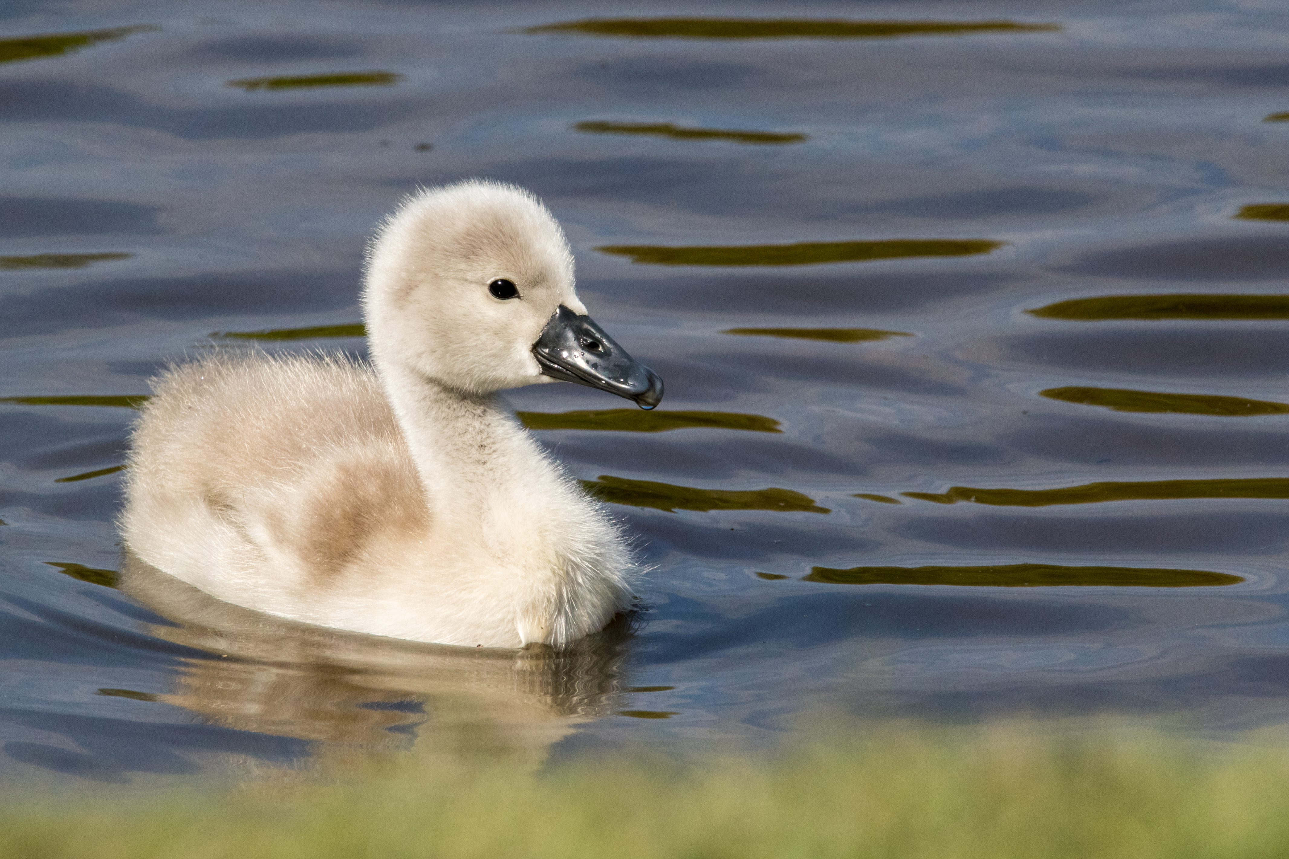 From what I could tell this is the Cygnet's first entry into the waters on the morning three days after it hatched